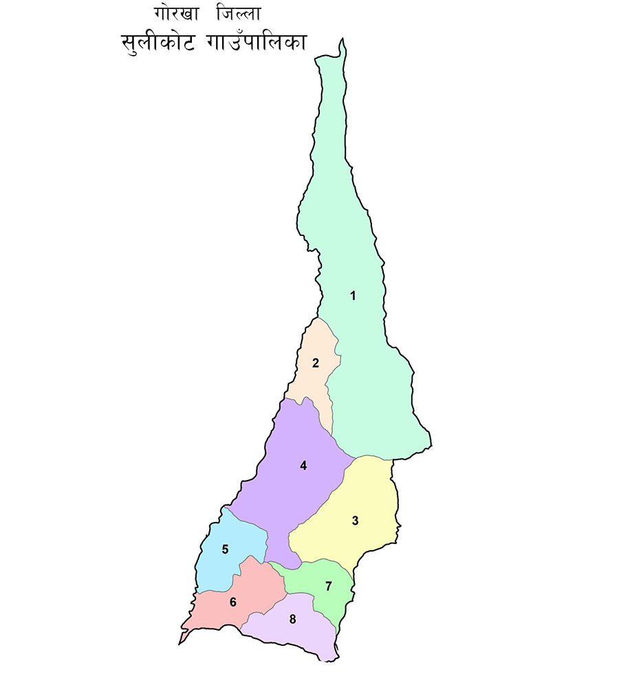 Sulikot नेपाली: सुलीकोट गाउँपालिका